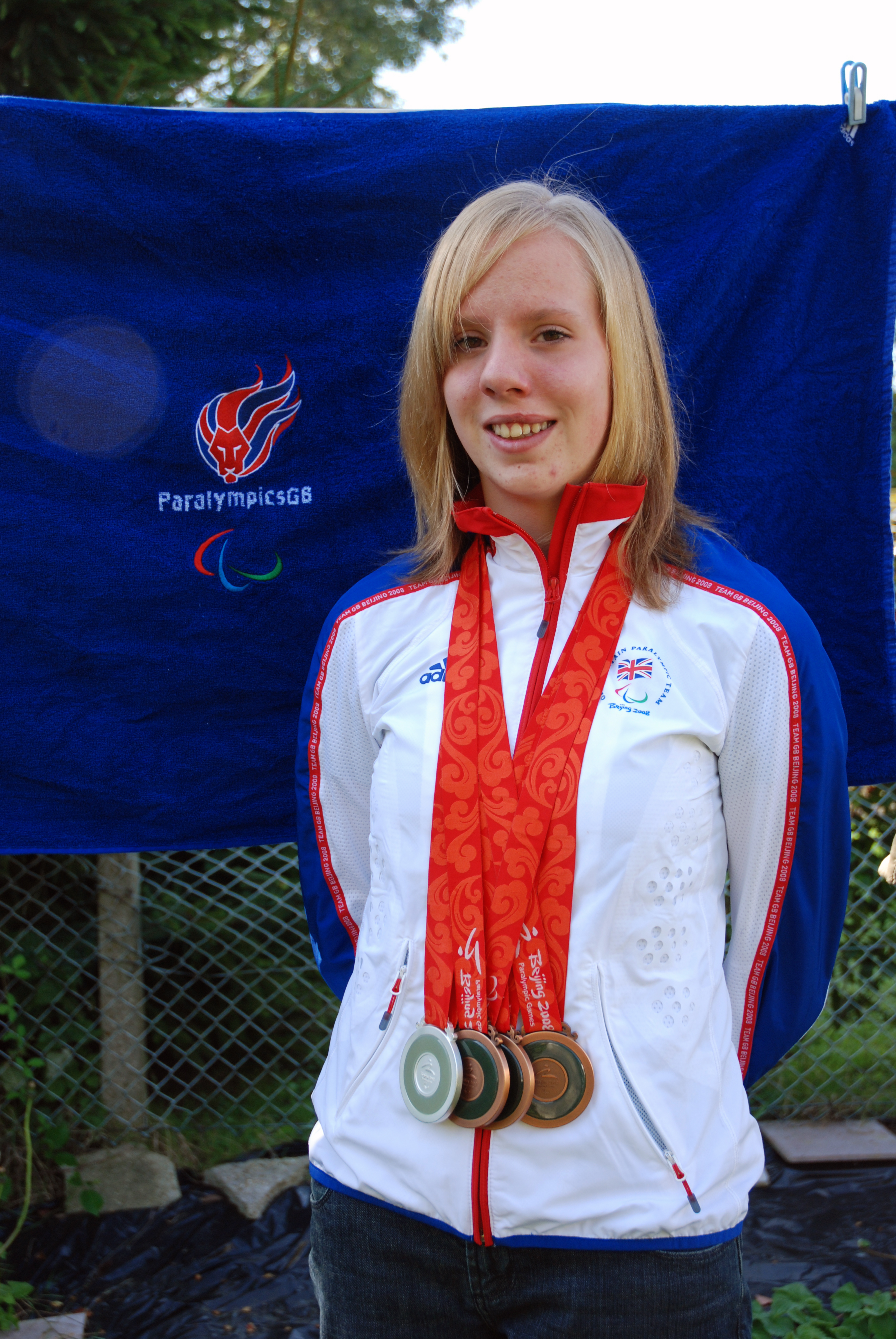 Louise Watkin proudly displaying her 4 medals won at the 2008 Paralympic Games